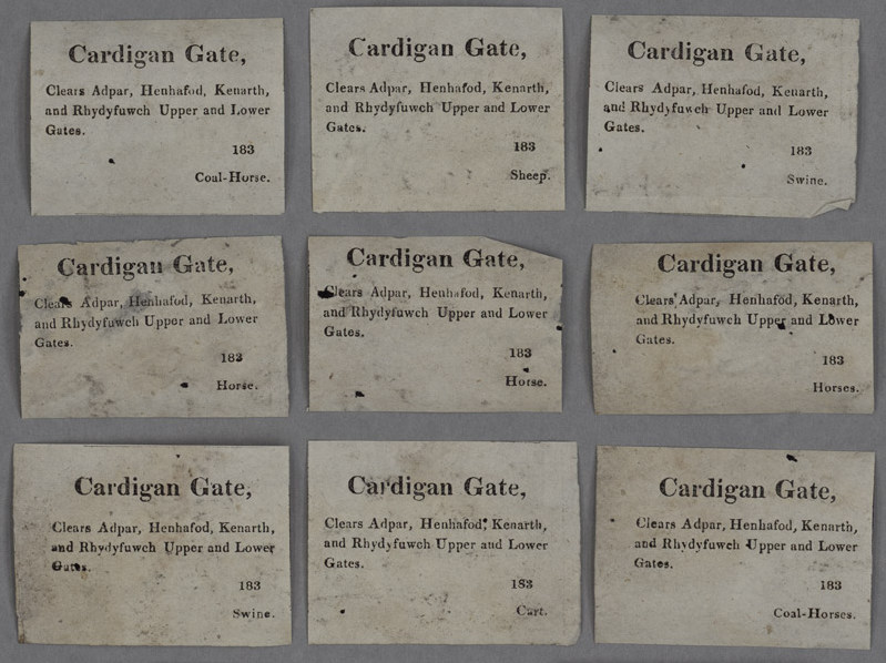 Cardigan Gate 183. Toll gate tickets